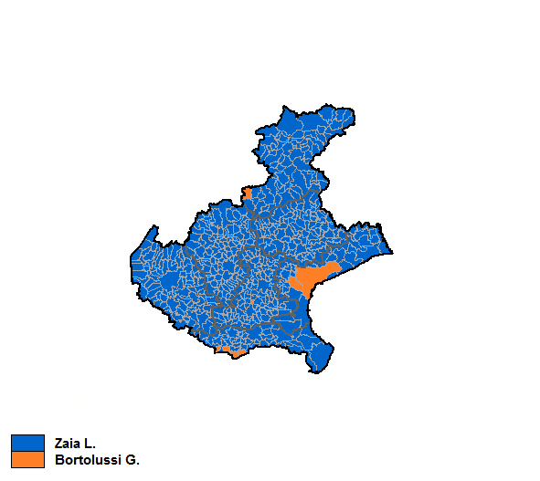 Vittorie comune per comune nelle elezioni regionali del 2010 in Veneto